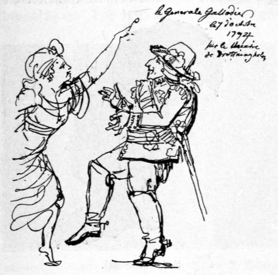 Louis Gallodier at the theatre at Drottningholm, Sweden. Drawing by Tobias Sergel